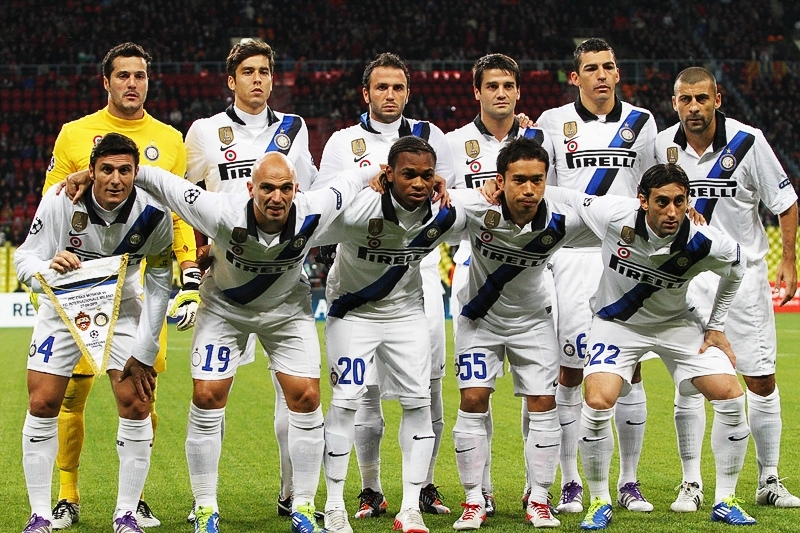 Internazionale in UEFA Champions League group stage match against PFC CSKA Moscow